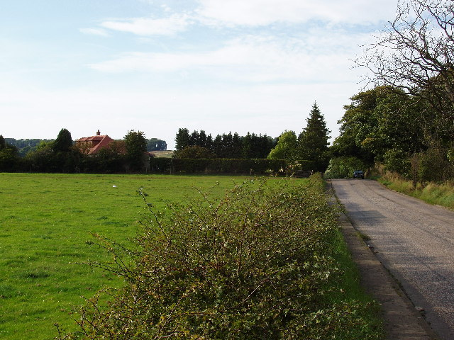 A house south of Burnwynd